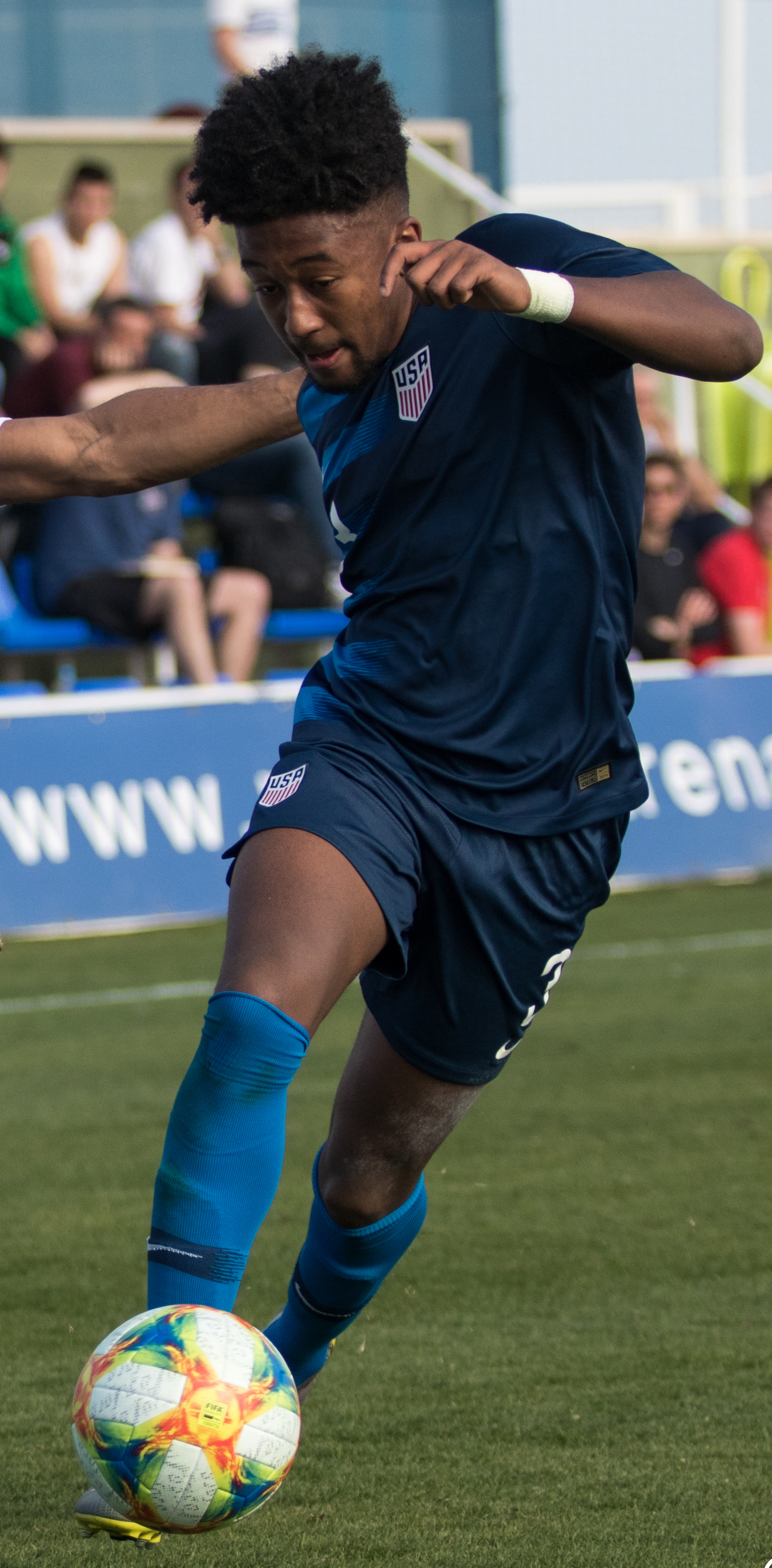 USA U20 v France U20, 22 March 2019